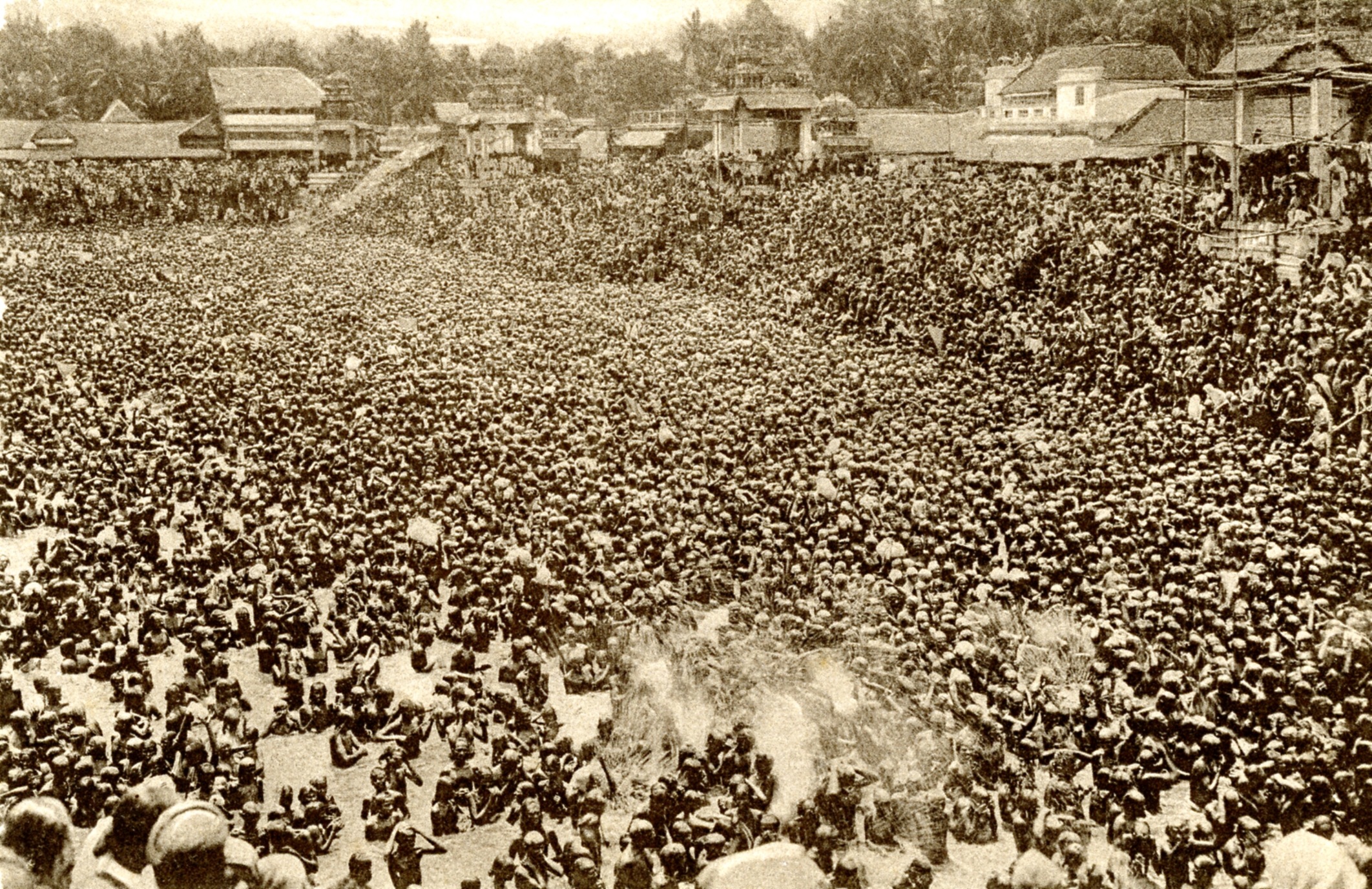 Thousands of people take the holy dip at the Mahamaham tank at Kumbakonam in Tamil Nadu, India during the Mahamaham Festival, known as the Kumbamela of South India. Mahamaham is performed once in 12 years.